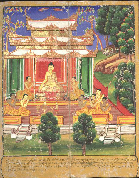 Gautama Buddha in a monastery with eight of his followers. Pages 13-14 of a Burmese watercolour parabeik (picture book) illustrating scenes from the life of the Buddha. Shelfmark: MS. Burm. a. 12.